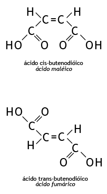 Maleic acid, Fumaric acid